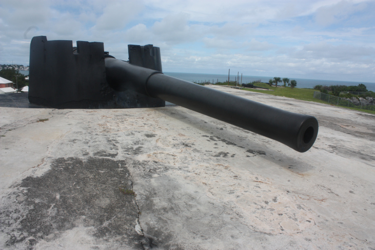 A 9.2" Rifled Breech Loader (RBL) (BL 9.2 inch Gun Mk X) coastal artillery gun, with two 6" RBLs visible in the background, at the defunct St. David's Battery (also known as the Examination Battery), on St. David's Head (actually Great Head, the larger of the two heads which compose St. David's Head), St. David's Island, St. George's Parish, Bermuda, in 2011. This battery was historically manned by soldiers of the Regular Army's Royal Garrison Artillery, and its part-time reserve, the Bermuda Militia Artillery, as well as the regular Royal Engineers and its part-time reserve, the Bermuda Volunteer Engineers.